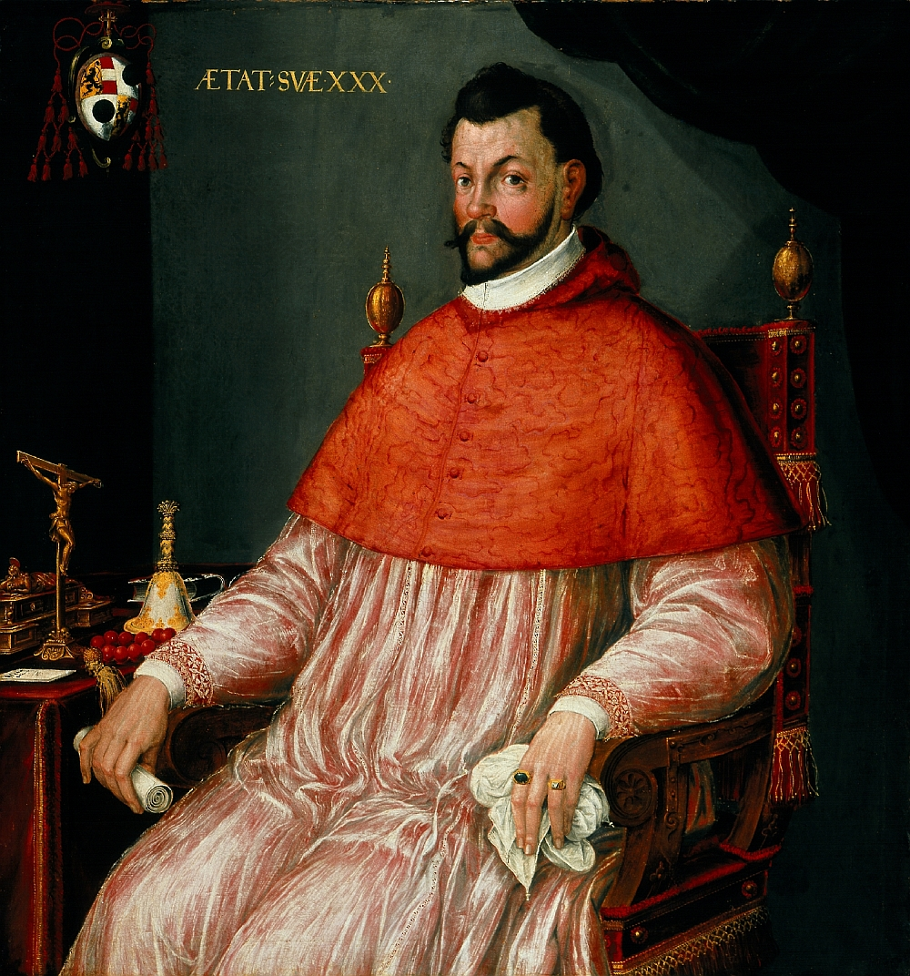 Wolf Dietrich von Raitenau, prince-archbishop of Salzburg (1587-1612) (circa 1555-1618)